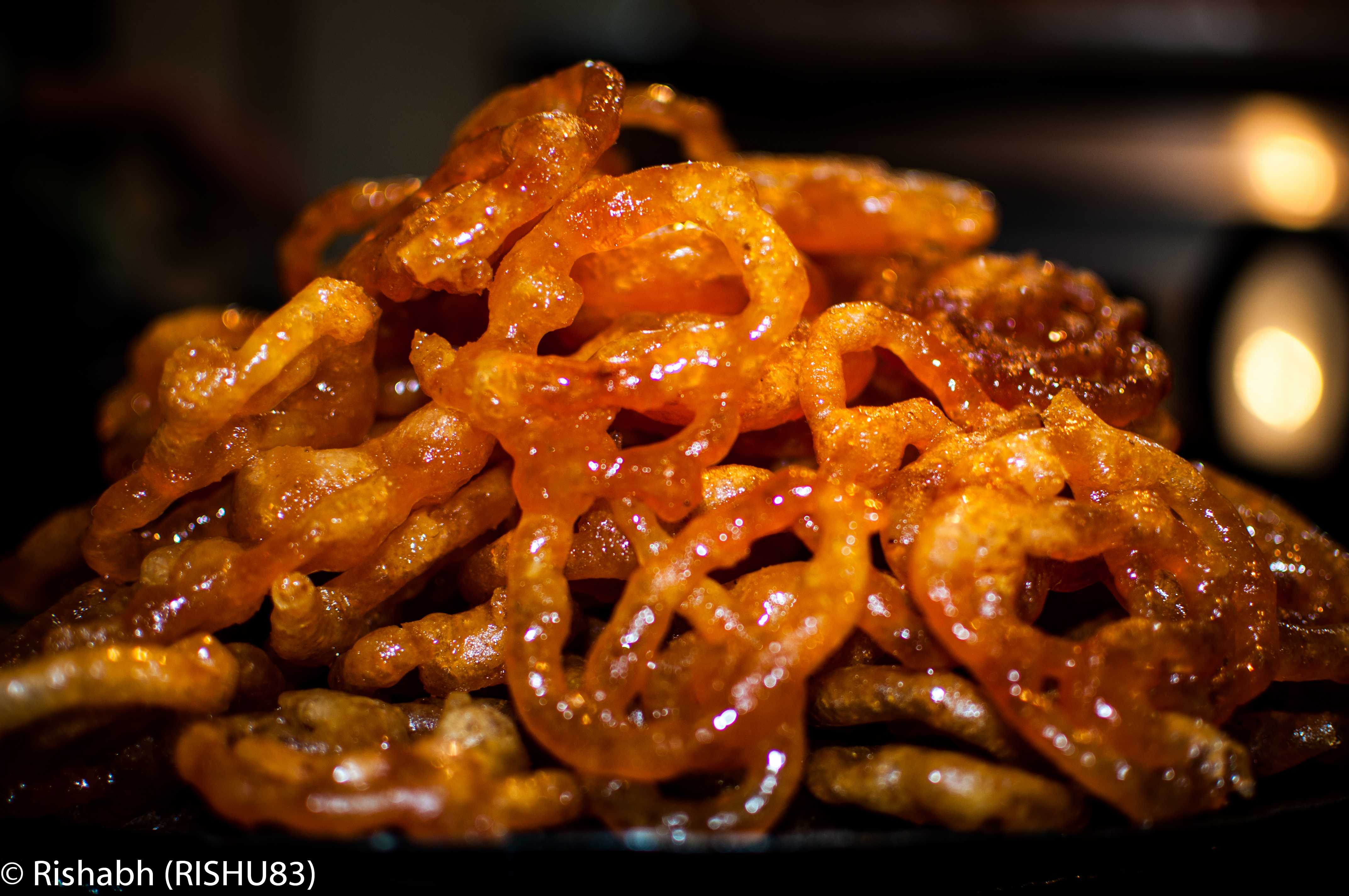 The taste of jalebi in north India is totally different